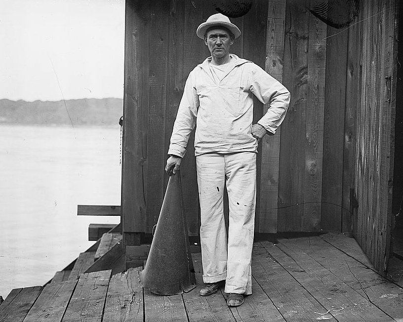 The following is the author's description of the photograph quoted directly from the photograph's Flickr page. "Bain News Service,, publisher. Coach Vail (Wisc) [i.e., Wisconsin] 1913 June. 1 negative : glass ; 5 x 7 in. or smaller. Notes: Title and date from data provided by the Bain News Service on thenegative.Forms part of: George Grantham Bain Collection (Library of Congress). Format: Glass negatives. Repository: Library of Congress, Prints and Photographs Division, Washington,D.C. 20540 USA, General information about the Bain Collection is available at Persistent URL: Call Number: LC-B2- 2709-18"